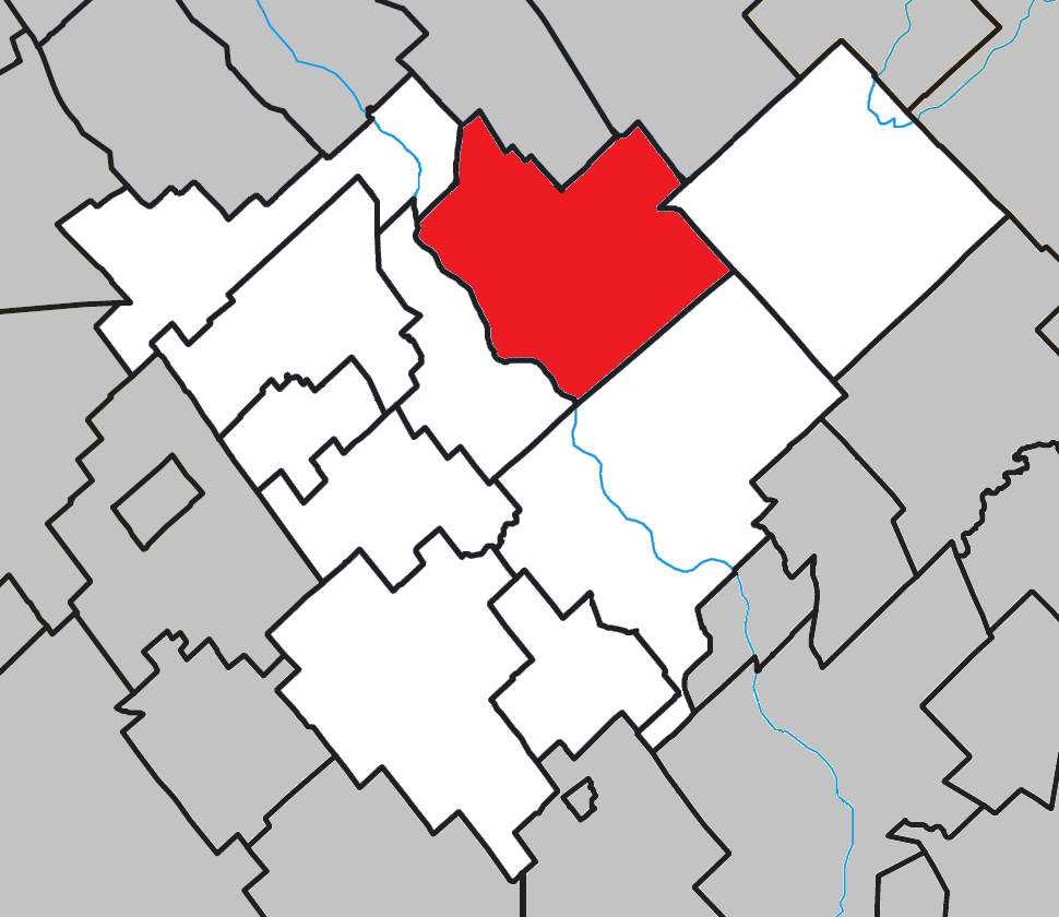 Location of Saint-Joseph-de-Beauce, Quebec within Robert-Cliche Regional County Municipality.